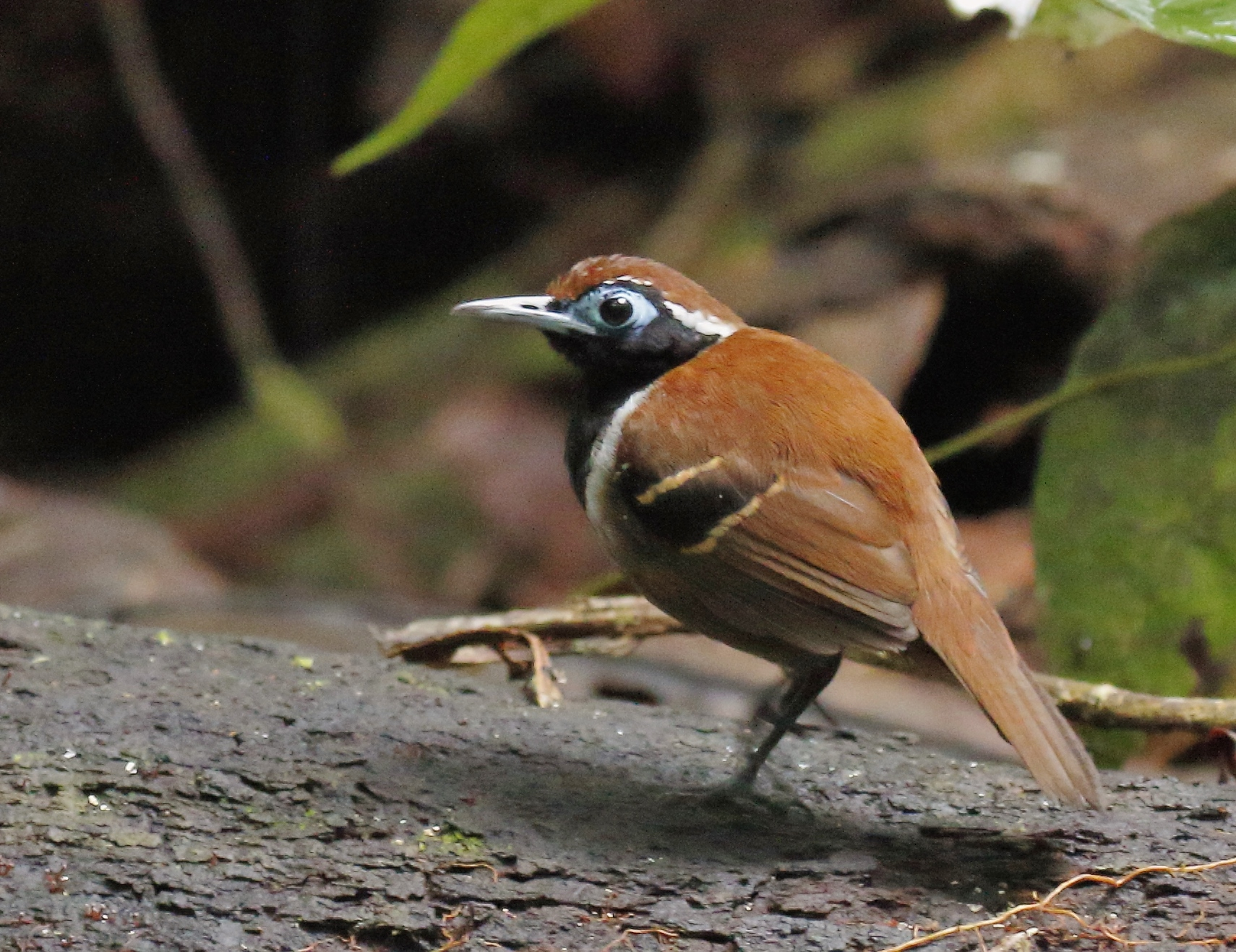 Ferruginous-backed antbird (male) at Presidente Figueiredo, Amazonas, Brazil